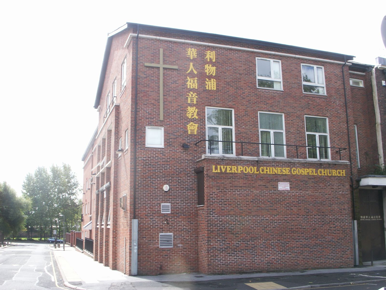 Liverpool Chinese Gospel Church (T: 利物浦華人福音教會, S: 利物浦华人福音教会, P: Lì​wù​pǔ Huá​rén Fú​yīn Jiào​huì), Chinatown, Liverpool, England